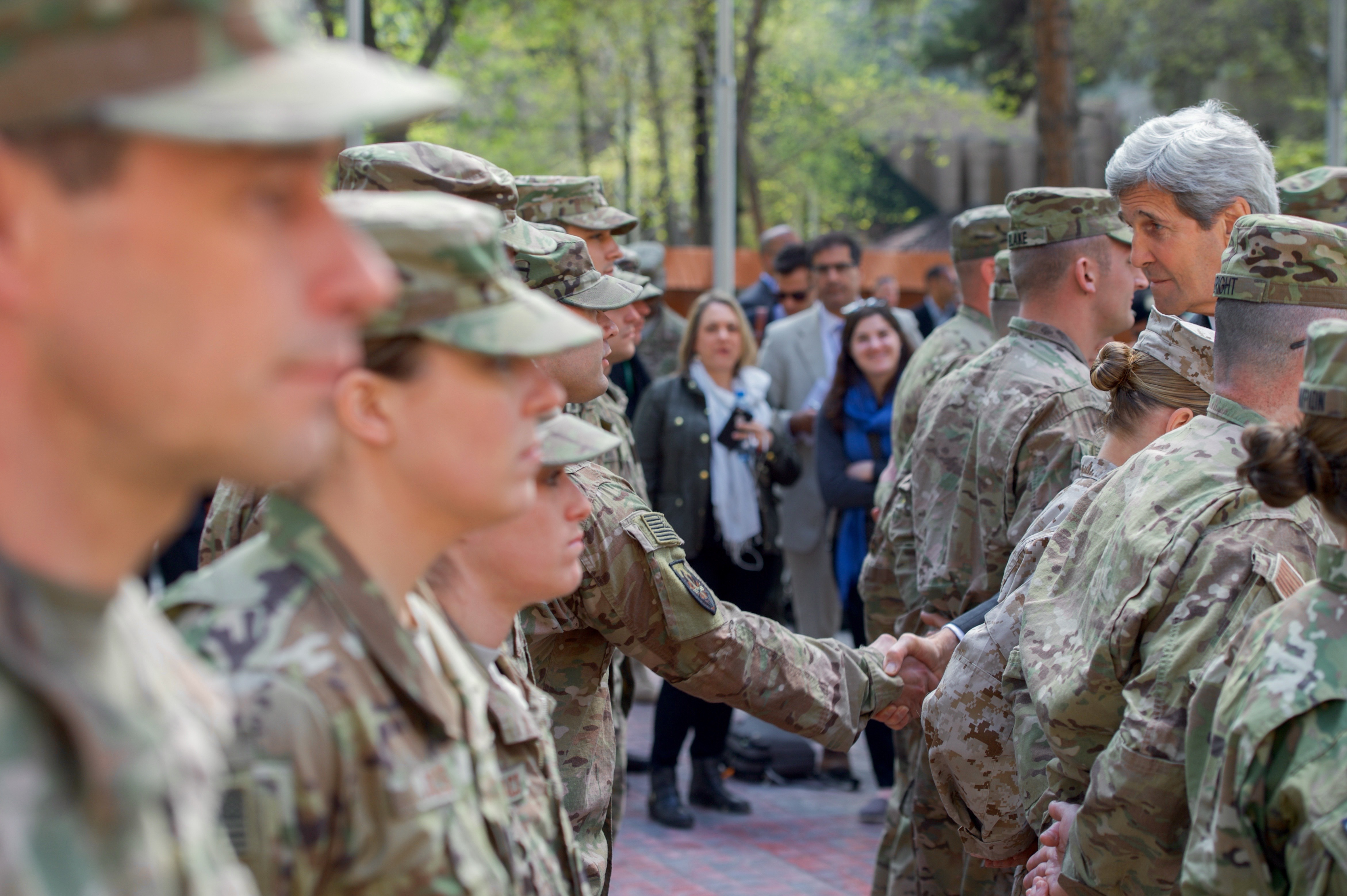 U.S. Secretary of State John Kerry shakes hands with a member of the U.S. miltary gathered at Camp Resolute Support before meetings with Afghan President Ashraf Ghani, Chief Executive Officer Abdullah Abdullah and Afghan Foreign Minister Salahuddin Rabbani in Kabul, Afghanistan on April 9, 2016. [State Department Photo/Public Domain]